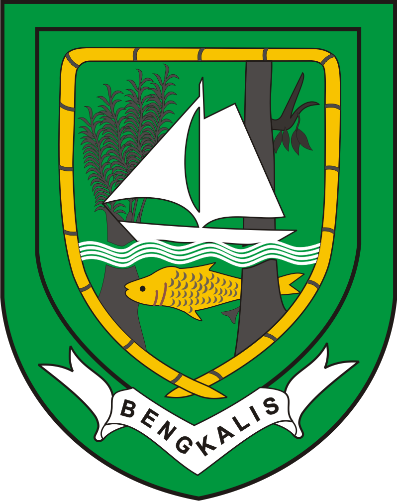 Lambang (Coat of Arms) of Kabupaten (Regency) of Bengkalis, Provinsi Riau (Riau Province, on Sumatra), Indonesia